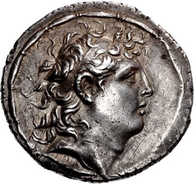 Coin of Diodotus Tryphon (cropped), Antioch on the Orontes mint.